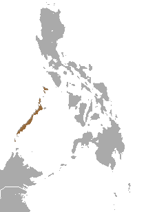 Palawan Treeshrew (Tupaia palawanensis) range